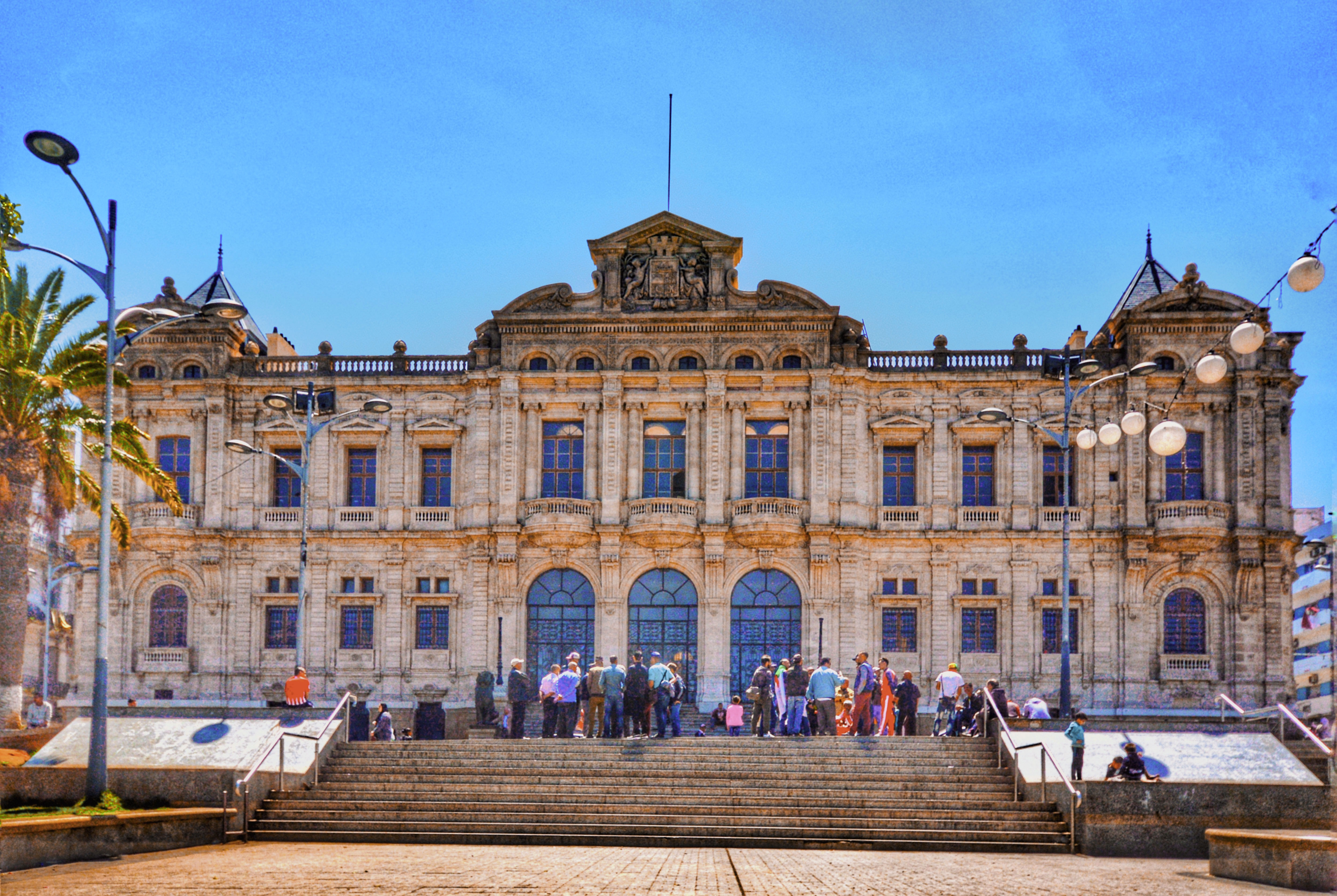 Historical building in the city of Oran, Algeria